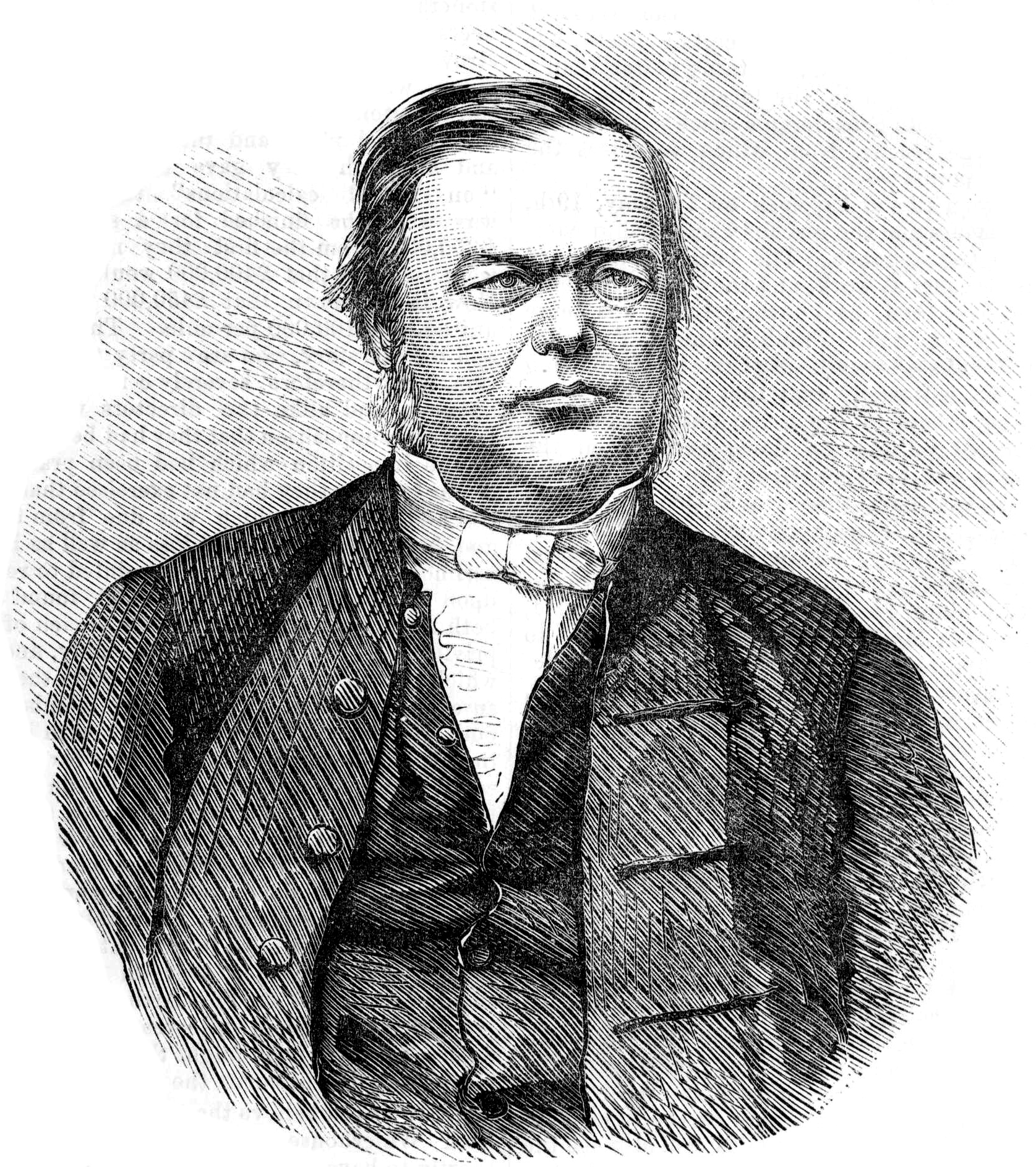 Portrait of John Smith (1816–1879)